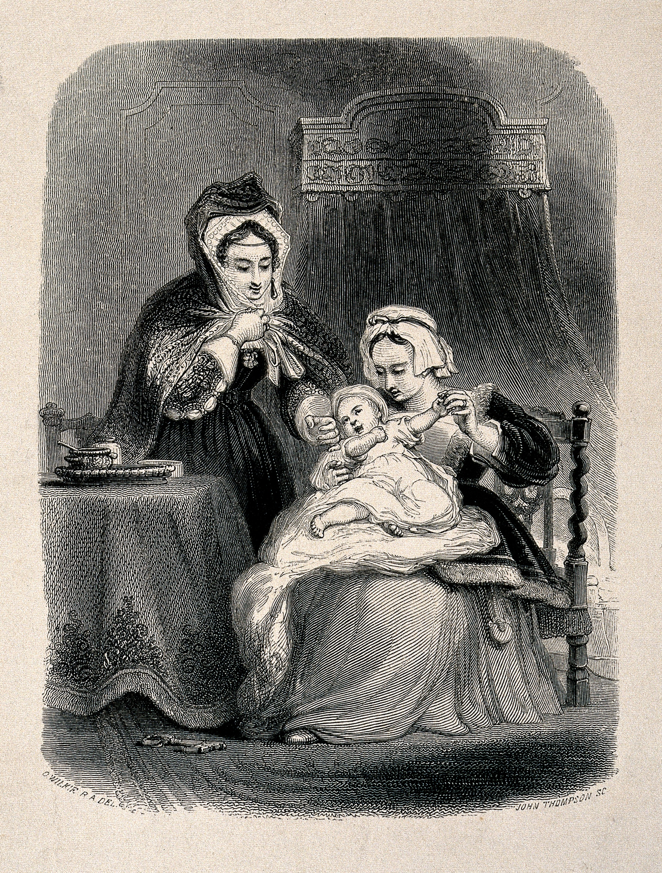 A female servant holds a small child whilst its fashionably dressed mother touches its face on her way out. Wood engraving by J. Thompson, 1840, after D. Wilkie. Iconographic Collections Keywords: John Thomson; Child Care; Obstetrics; David Wilkie